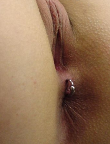 Anus piercing.